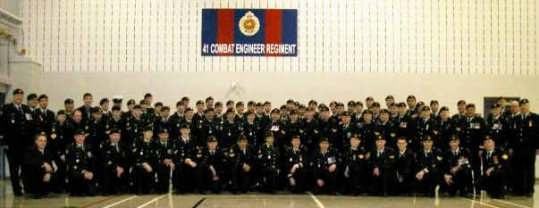 Group photo of 41 Combat Engineer Regt personnel taken at Debney Armoury facilities in Edmonton after funeral for Sgt George Miok, killed in Afghanistan 30 December 2009.